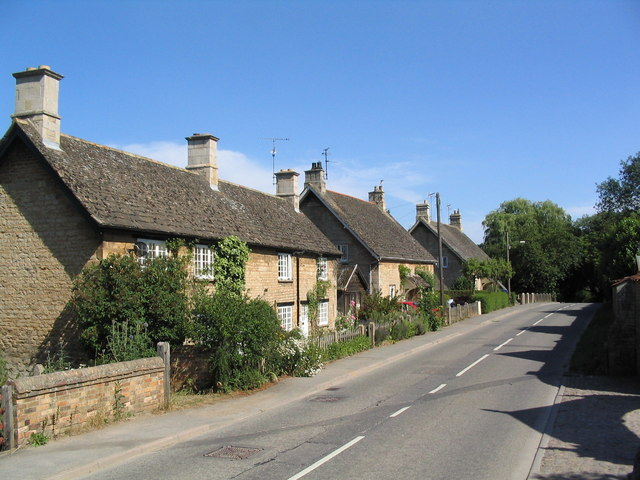 Cottages, Witham on the Hill. At the entrance to this attractive village, on the road from Little Bytham